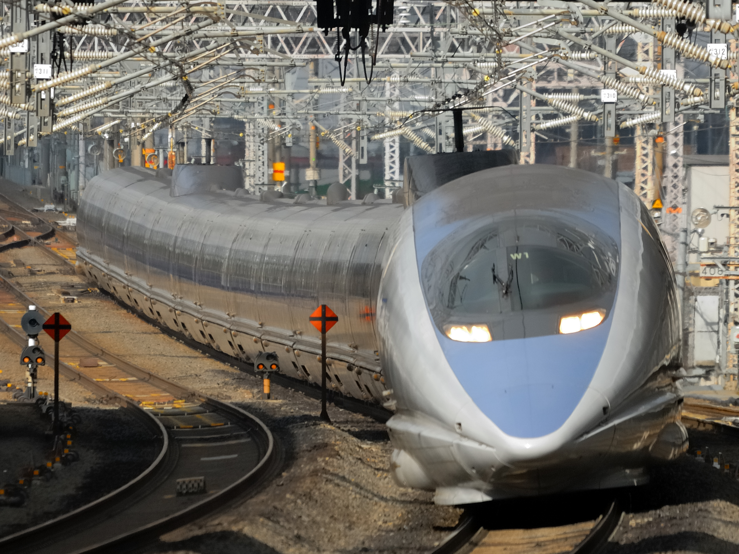 500 series shinkansen set W1 passing Maibara Station on the "Nozomi 29" service